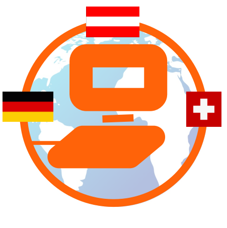 Logo of the worldwide humanitarian network in the region DACH (Germany, Austria, Switzerland).